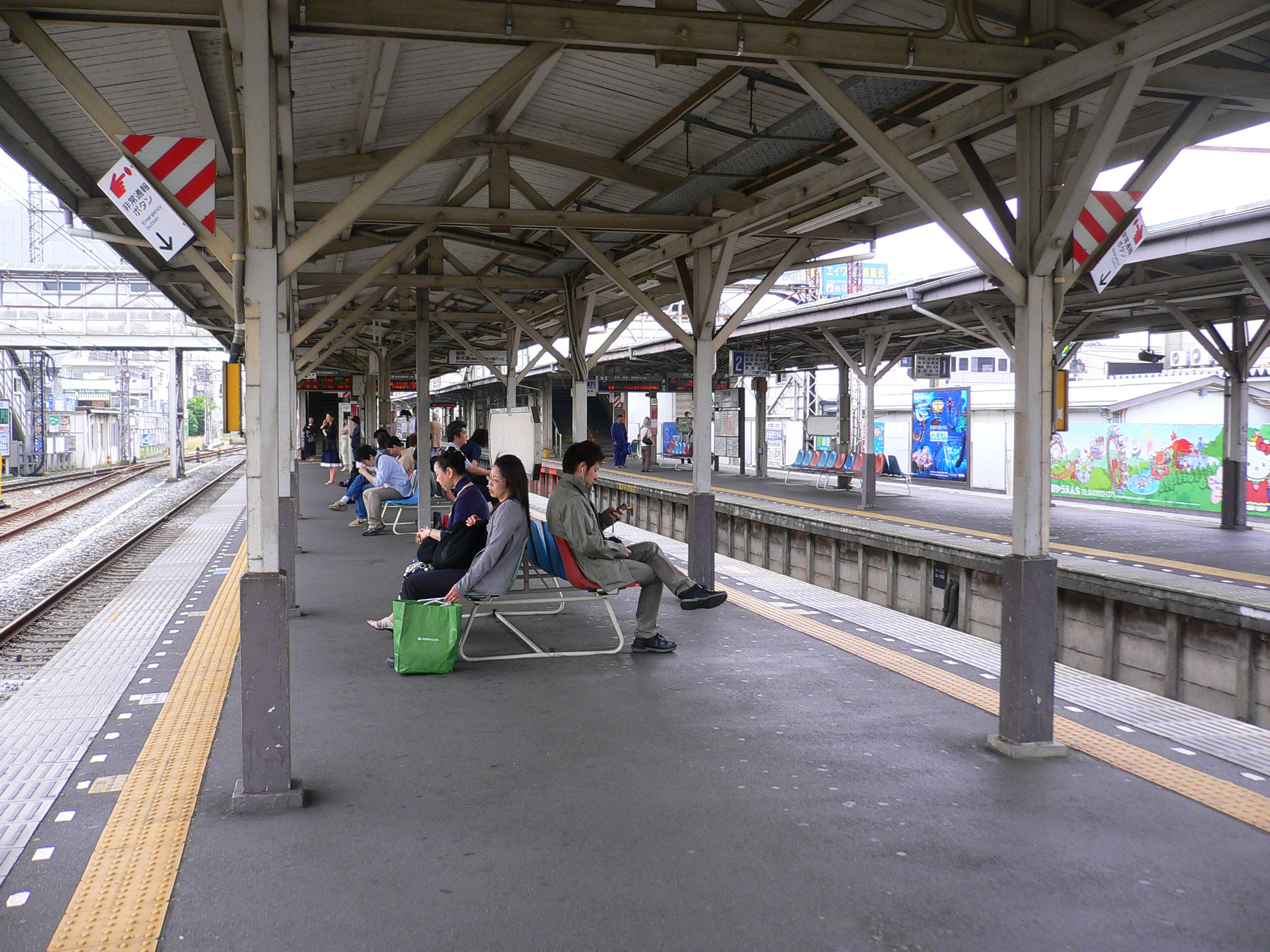 Shakujī Kōen Station (石神井公園駅), Nerima W, Tokyo M.